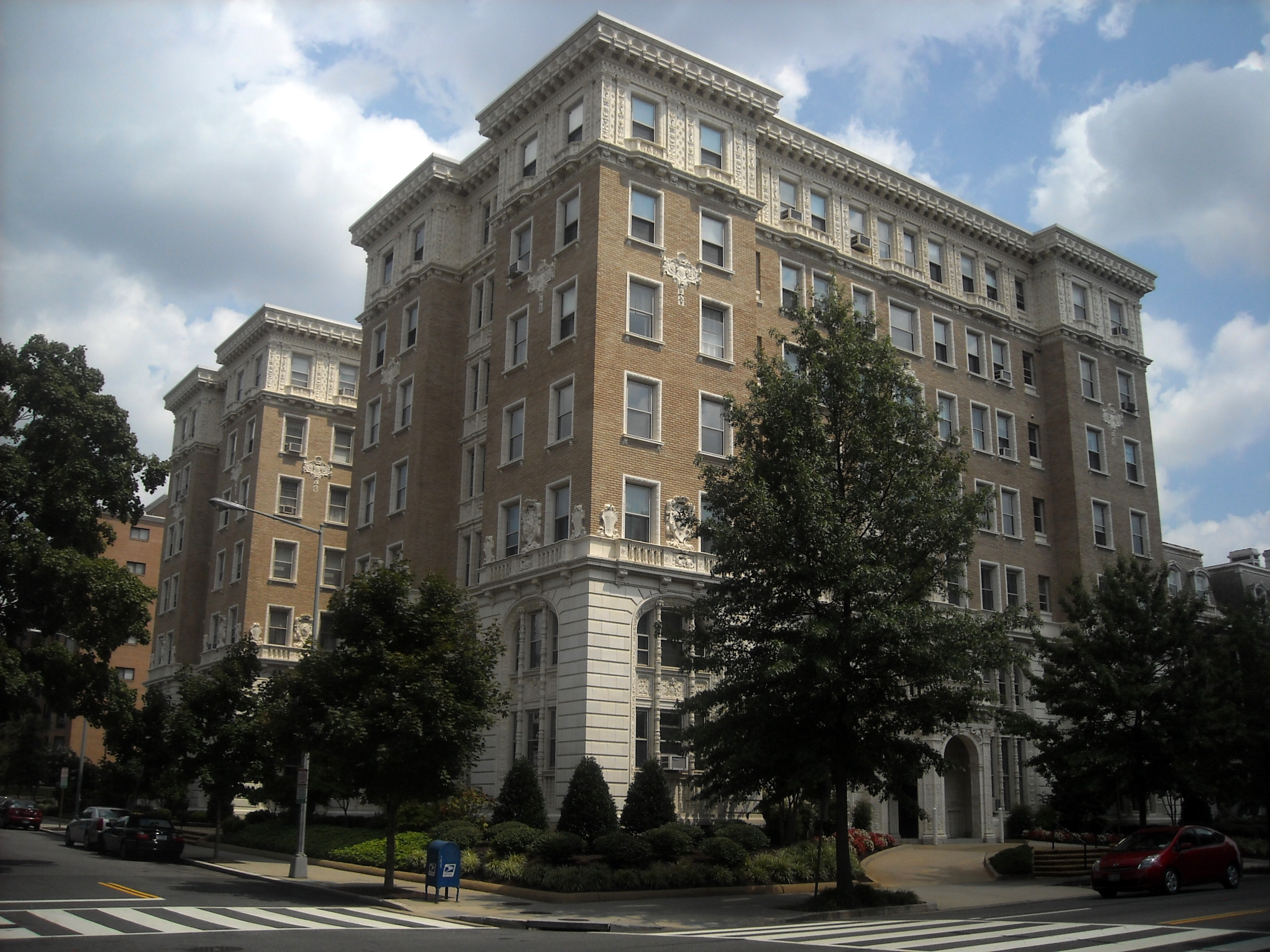 The 2029 Connecticut Avenue condominium located in the Kalorama neighborhood of Washington, D.C. Constructed in 1915–1916, the Beaux-Arts style building was originally known as the Bates Warren Apartment House. It is designated as a contributing property to the Kalorama Triangle Historic District, listed on the National Register of Historic Places in 1987. Notable tenants have included William H. G. Bullard, Joseph Gurney Cannon, Charles S. Deneen, William O. Douglas, Frank Friday Fletcher, Henry D. Flood, William H. Harrison, Lena Horne, Alanson B. Houghton, William M. Ingraham (Assistant Secretary of War), Robert A. Lovett, Alexander Campbell King, George McGovern, Charles B. McVay, Jr., Henry Morgenthau, Jr., John J. Pershing, William E. Reynolds, Edward Everett Robbins, Carol Schwartz, Leslie M. Shaw, George Sutherland, William Howard Taft, Francis E. Warren, and Wallace H. White, Jr..